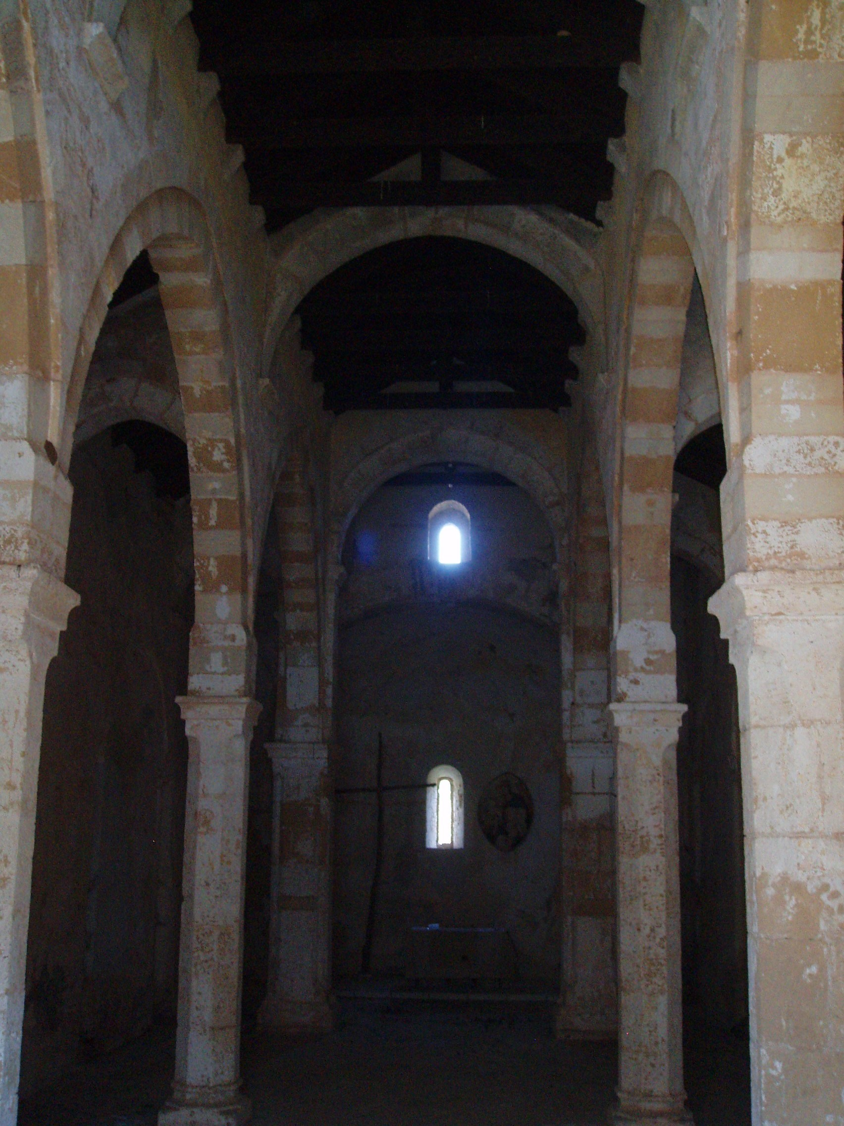 Romanic Church in Apulia